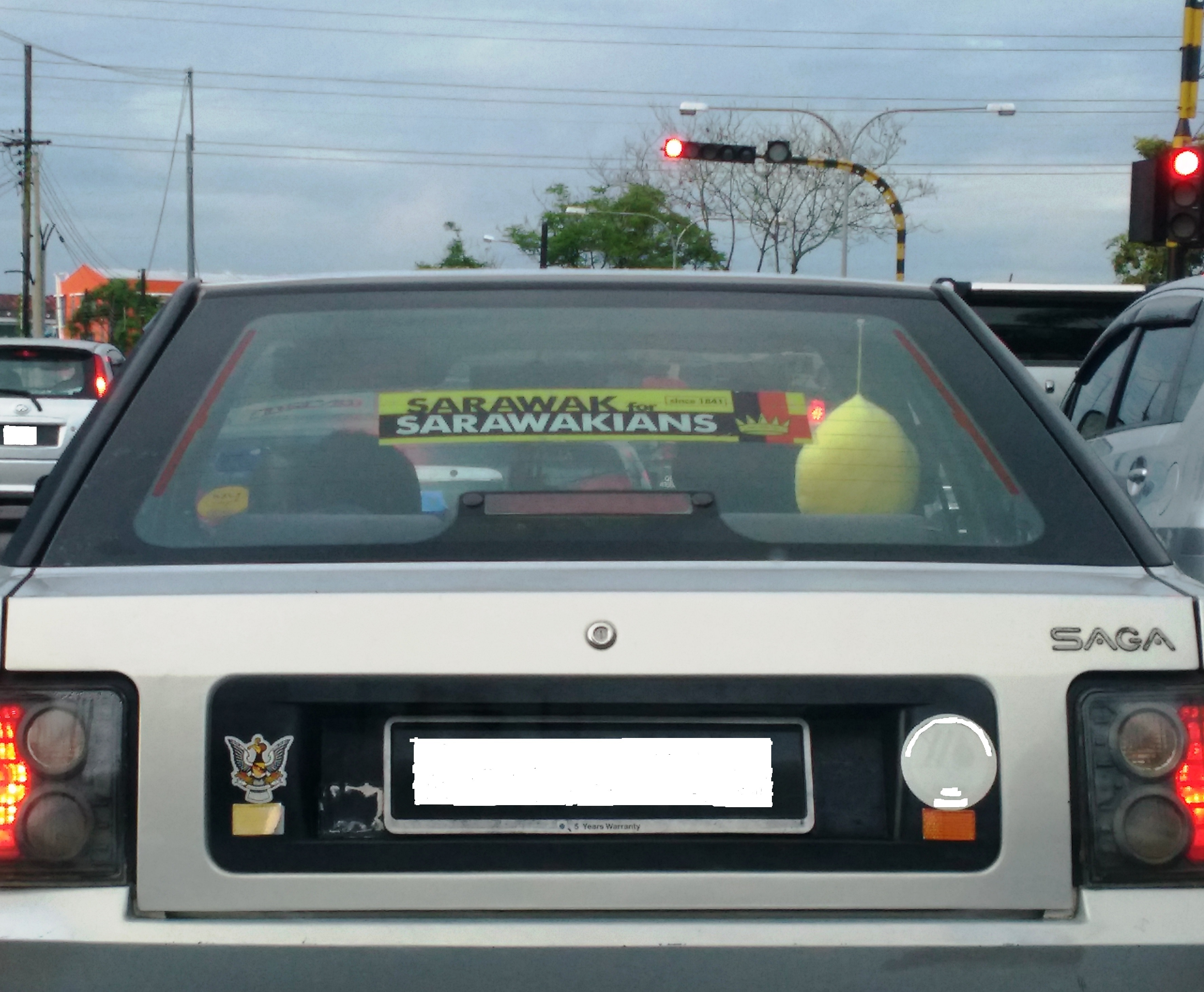 Sarawak for Sarawakians sticker on a car backscreen in Sibu, Sarawak.